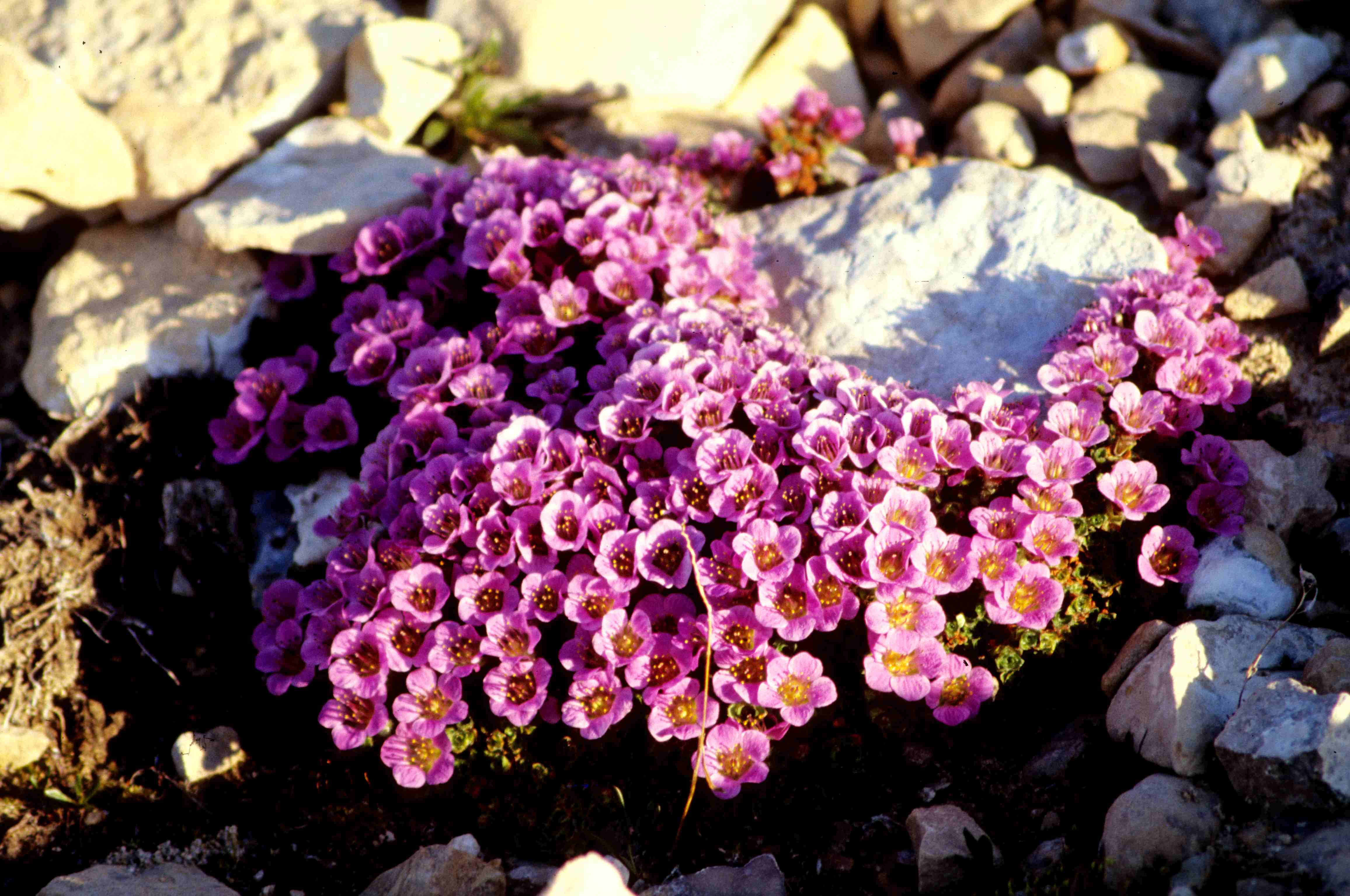 Flowering Purple Saxifrage (Saxifraga oppositifolia), Ukkusiksalik National Park, Nunavut, Canada